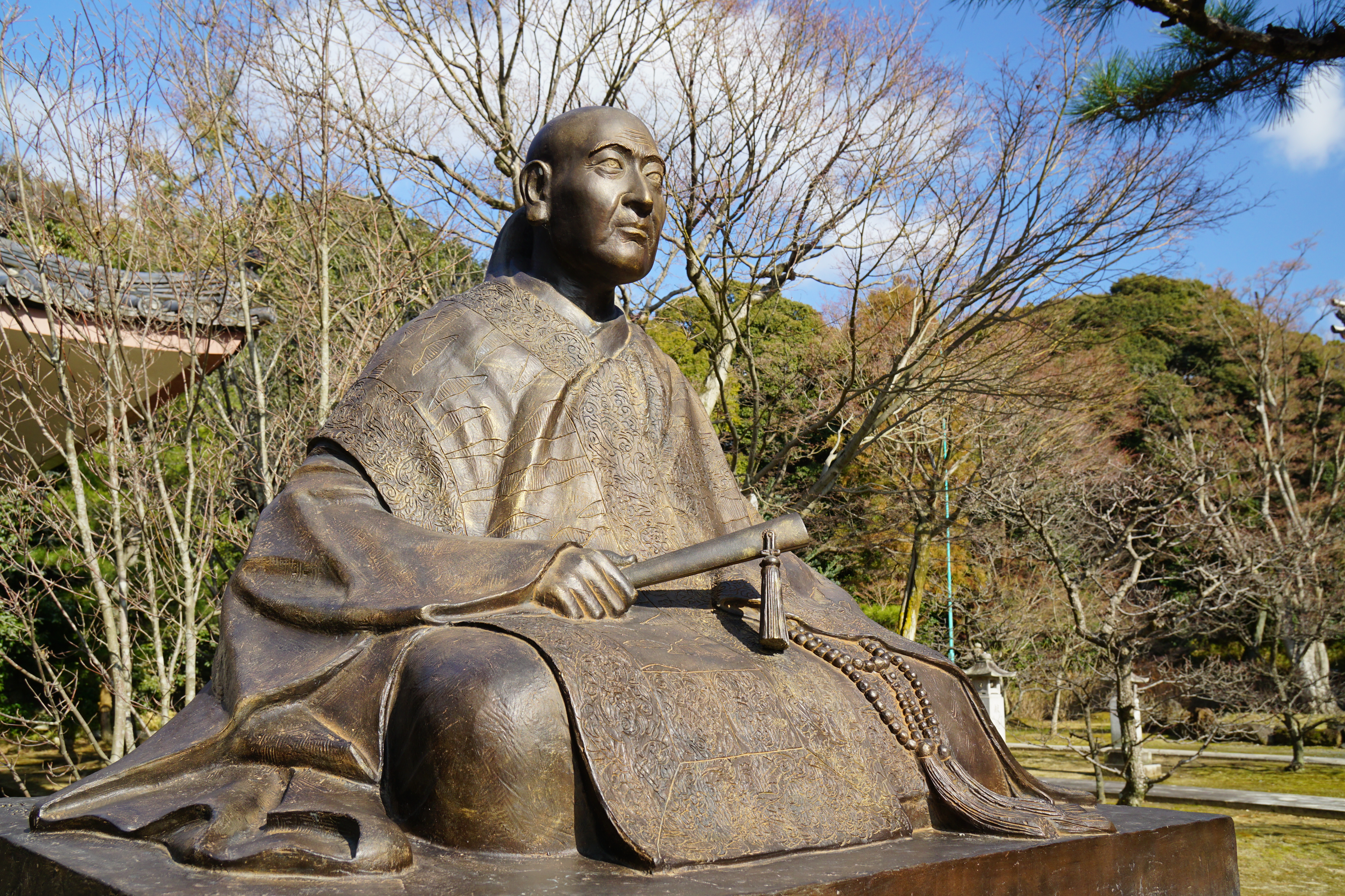 At Chishaku-in, Higashiyama-ku, Kyoto, Kyoto prefecture, Japan.